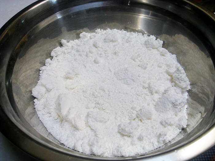 Rice flour (half glutinous and half non-glutinous rice)